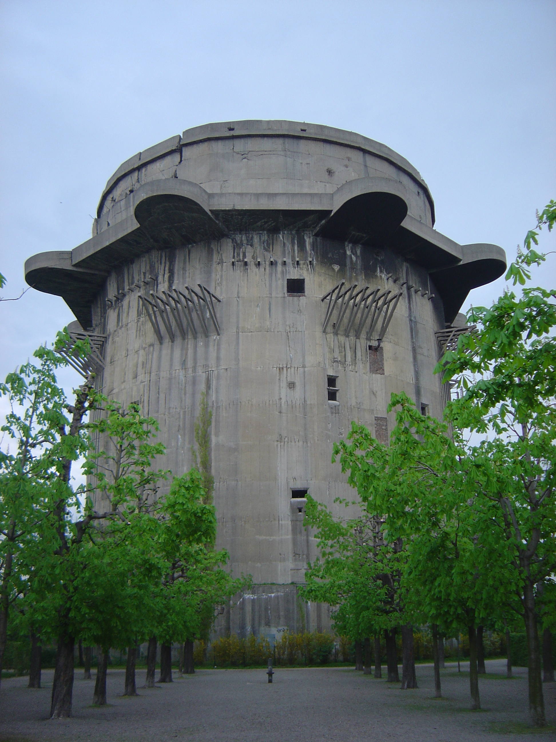 The southwest flak tower in Augarten, Vienna, Austria